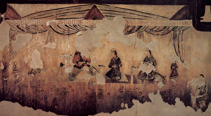 The Gakjeochong (각저총) mural, one of the Goguryeo tombs shows that an armed knight drinks a tea together with two ladies in the interior.